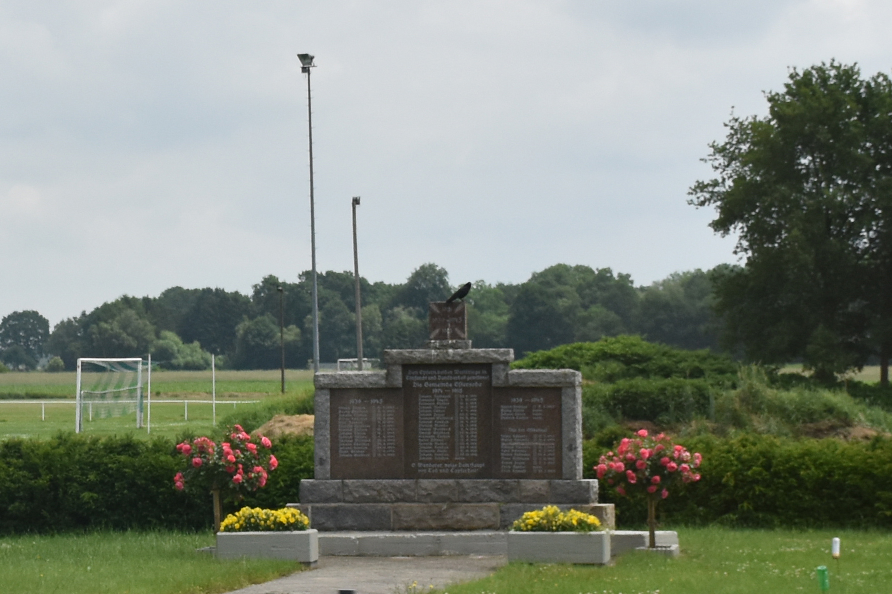 Memorial on the entrance of Ostersode to the fellow villagers who fell in World War I and World War II.